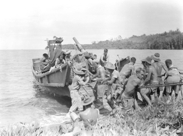 BIAMU, ORO BAY, NEW GUINEA. 1942-11-11. GUNNERS OF THE 2/5TH FIELD REGIMENT UNLOADING THEIR 25 POUNDER GUN AT BIAMU VILLAGE. THIS GUN IS BEING UNLOADED FROM A JAPANESE BARGE WHICH WAS CAPTURED DURING THE ABORTIVE LANDING ATTEMPT AT MILNE BAY DURING 1942-08/07.